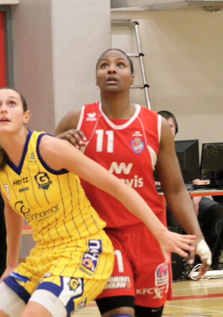 Lele Hardy (11) of Haukar being guarded by Grindavík's Rachel Tecca (7) in a Úrvalsdeild kvenna game on October 15, 2014.